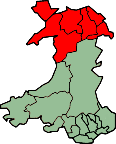 Self made based upon :Image:WalesNumbered.png